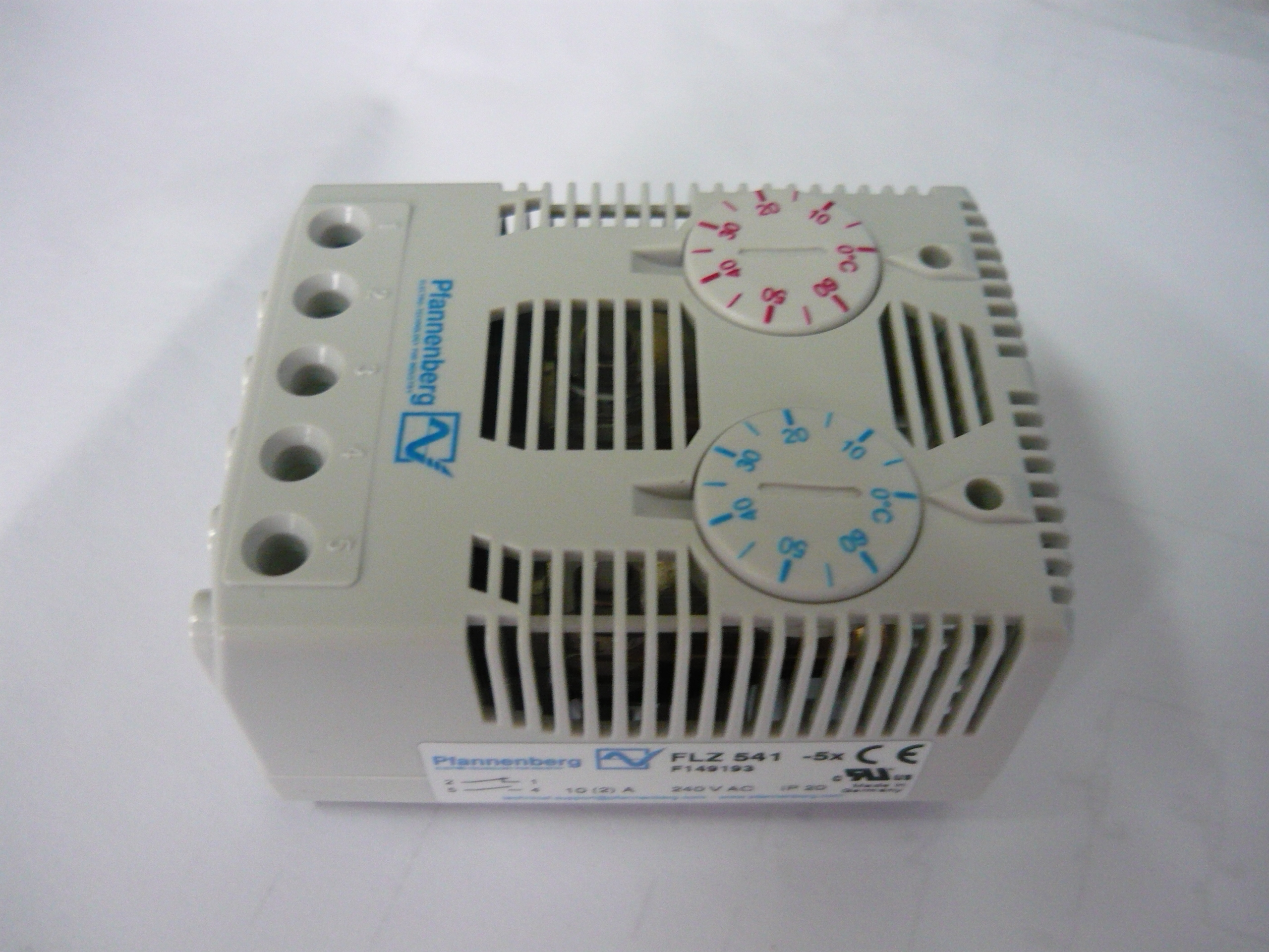 Thermostat FLZ 541